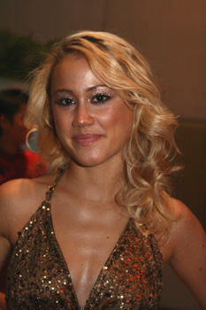 Miss Macedonia 2007 Jana Stojanovska. Photo taken in Miss World 2007, Sanya 1/12/07.